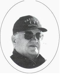 Bob Raczek